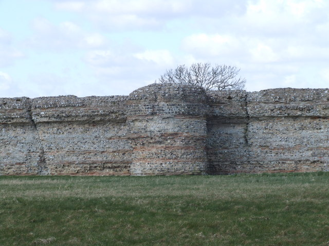 Burgh Castle Built in around 280AD. It was a Roman cavalry fort used to protect the coast from invaders from where Northern Germany is now.